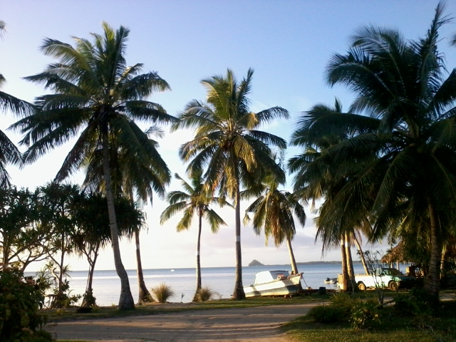 A road next to the beach, in the village of Vailala (Wallis island)